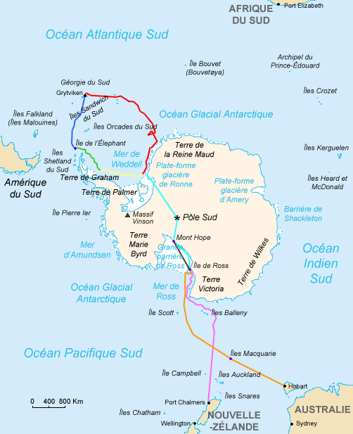 See Imperial Trans-Antarctic Expedition Blank version available : Image:ShackletonEnduranceBlank.png